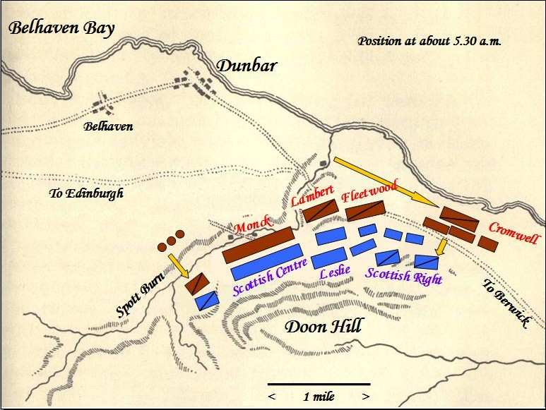 1650 Battle of Dunbar dispositions map. "The Lord hath delivered them into our hands!" -- Cromwell on observing the Scots abandoning their position on Doon Hill